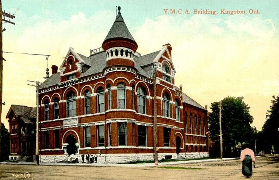 Postcard of the Y.M.C.A. Building in Kingston, Ontario, Canada.